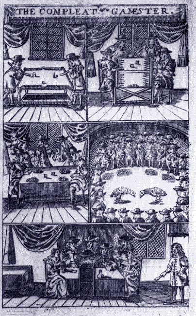 Illustration from The Compleat Gamester: or Instructions - How to play at Billiards, Trucks, Bowls and Chess - together with all manner of usual and most Gentile Games either on Cards or Dice - to which is added the Arts and Mysteries of Riding, Racing, Archery and Cock-Fighting. Cotton Charles, London, 1674.